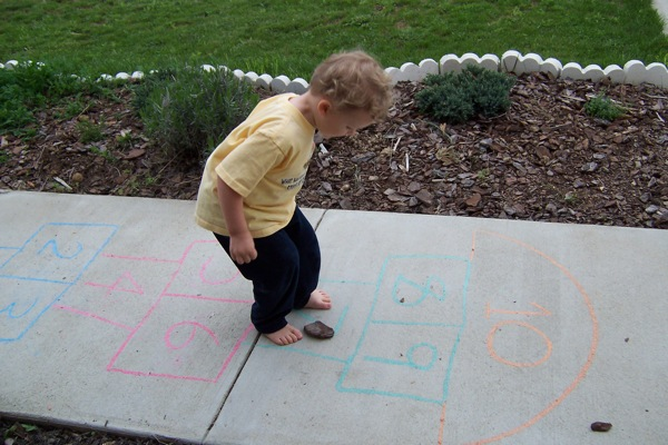 Boy playing hopscotch using a rock. The hopscotch pattern is drawn in coloured chalk on a concrete path.